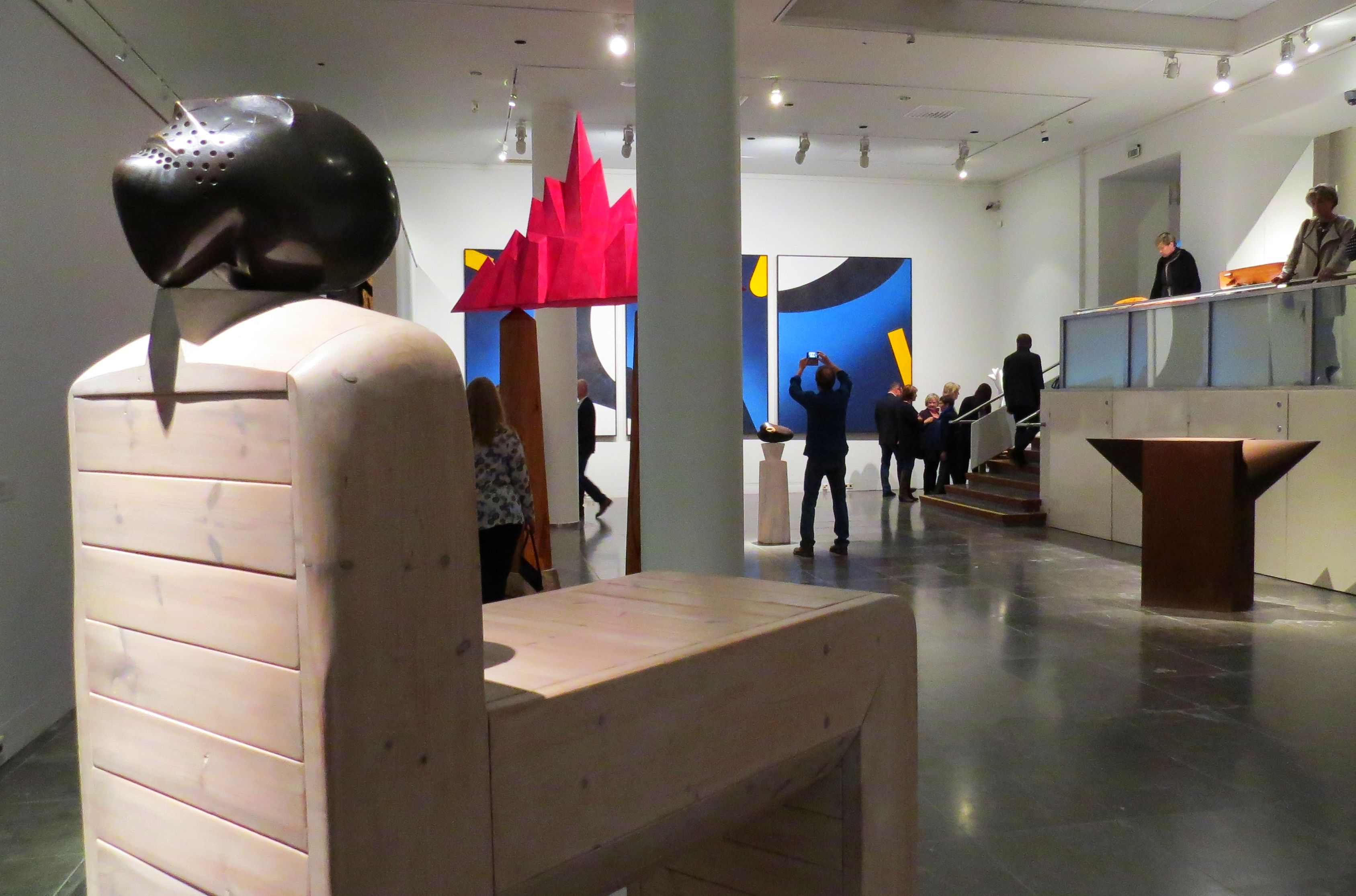 Zoltan Popovits finnish-hungarian sculptor 1966-2016 exhibition in Helsinki (Amos Anderson Art Museum)